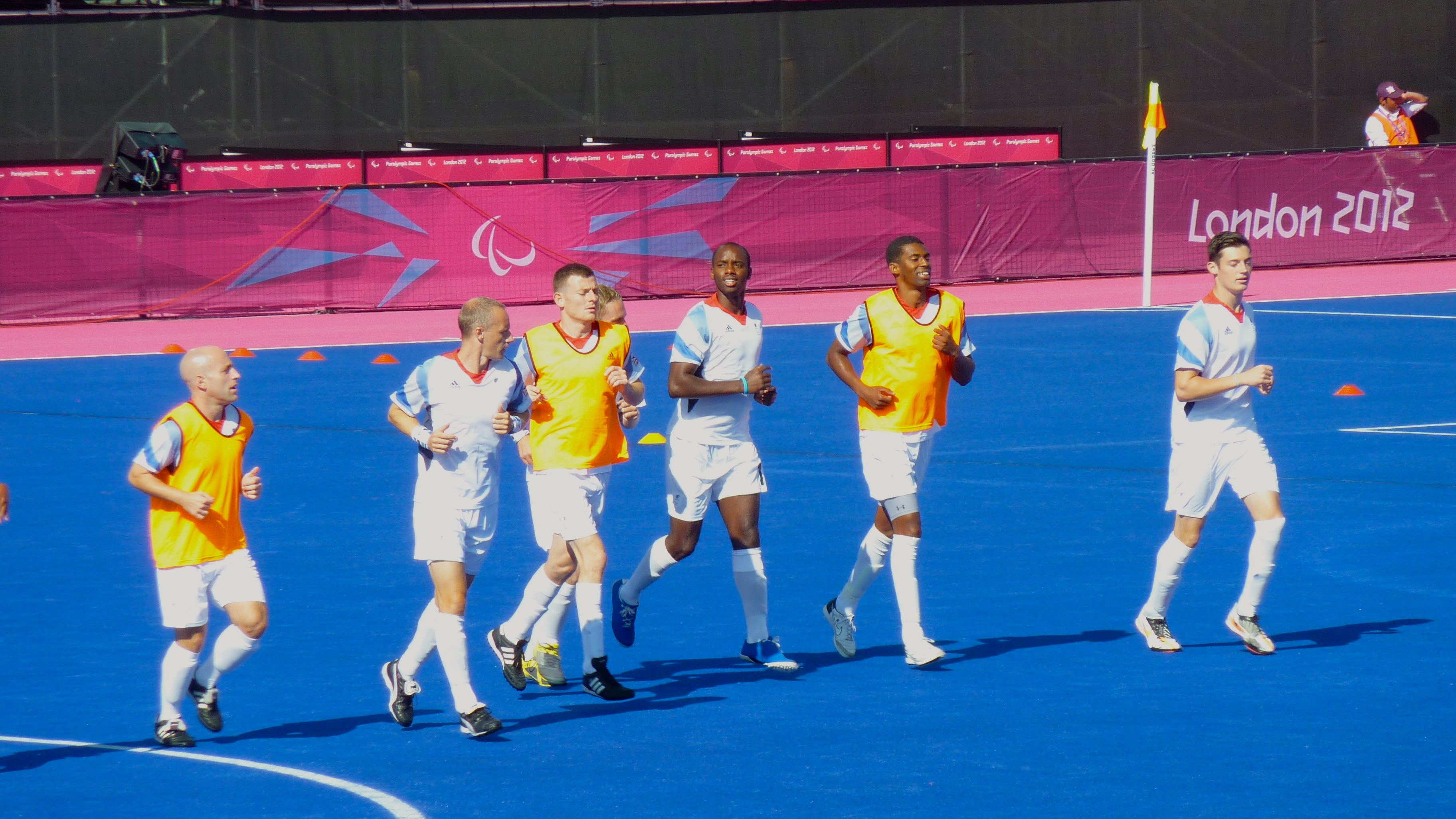 ParalympicsGB preparing for their 7-a-side game